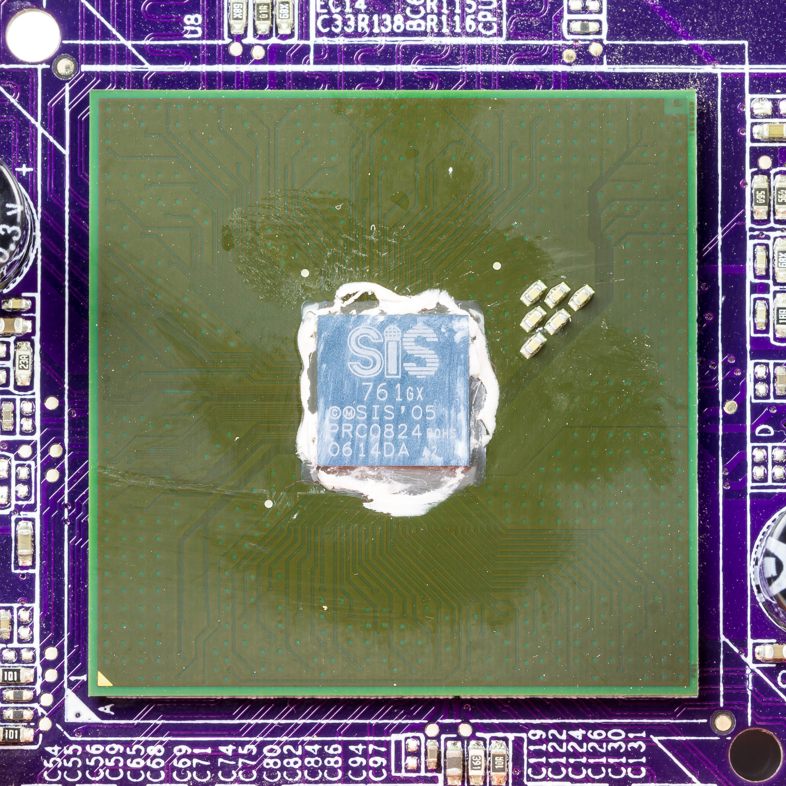 Elitegroup 761GX-M754 - SiS 761GX - North bridge